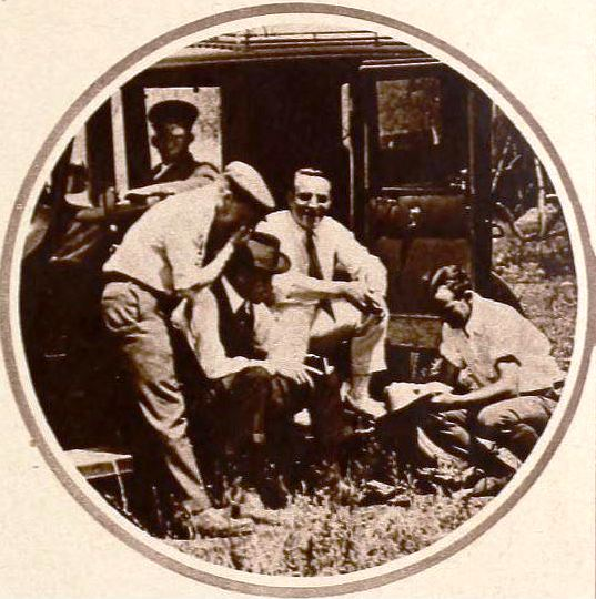 Still for the American silent film Soldiers of Fortune (1919), page 25 of the October 1919 Shadowland. Production crew (from left) head camera man H. Lyman Broening, assistant director James P. Hogan, director Allan Dwan, and assistant director Arthur Rossen.